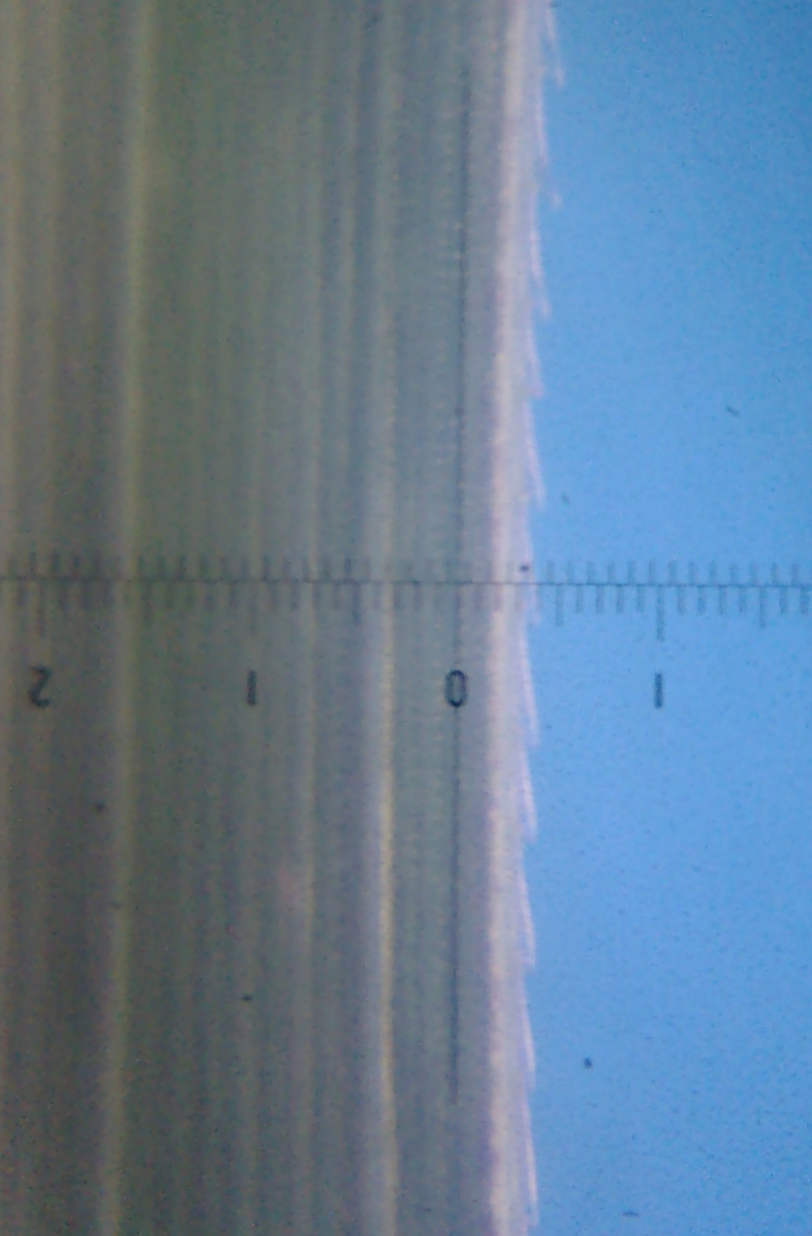 Leaf edge of Miscanthus sinensis, magnification view, 0-1 is one millimetre.